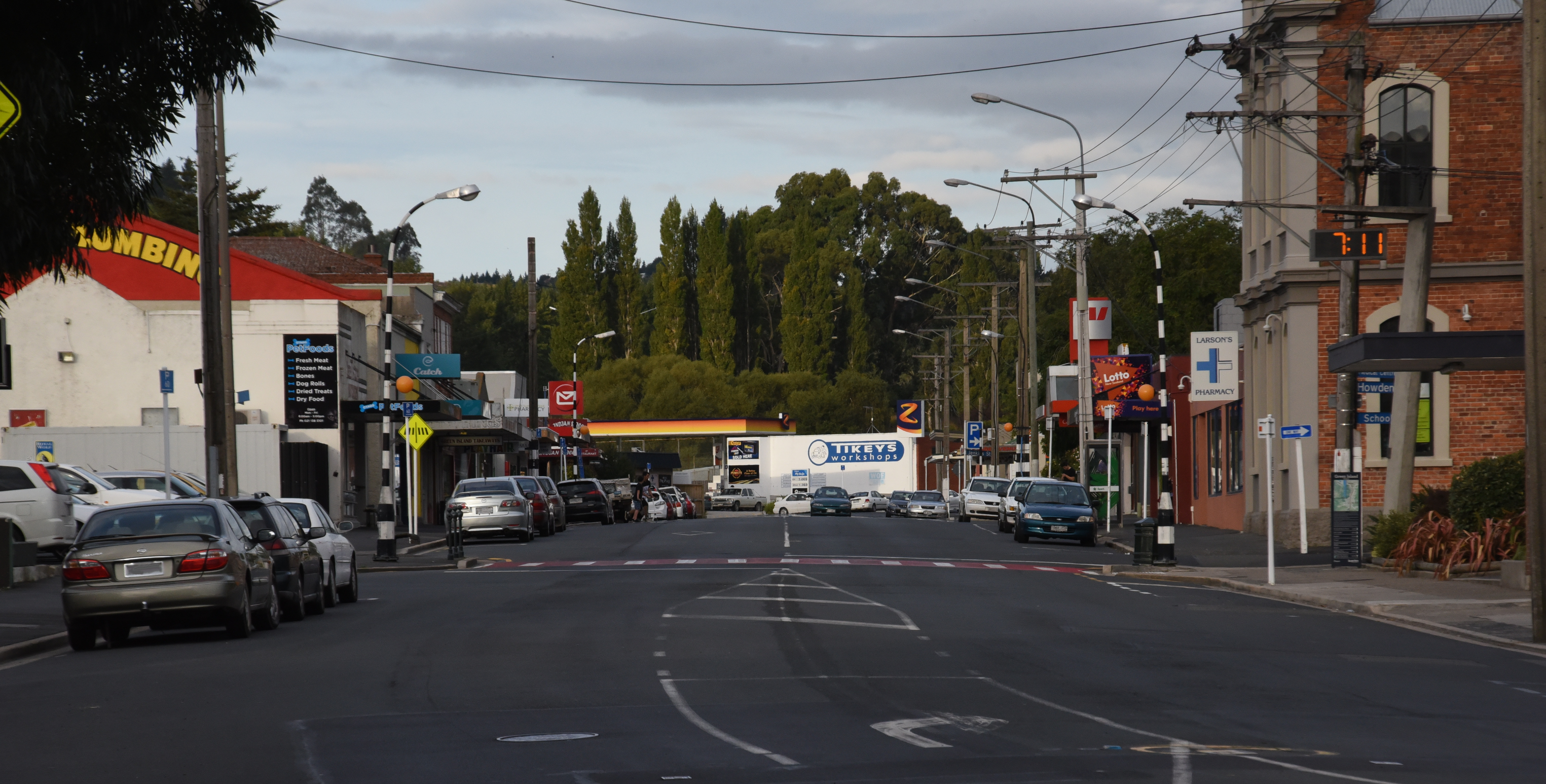 Photograph of Main South Road, Green Island, Dunedin.